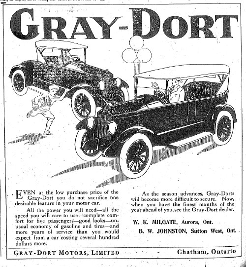 Newspaper ad for the Grey-Dort automobile, from the Newmarket (Ontario) Era, June 1921. Cropped from the newspaper in the link shown.